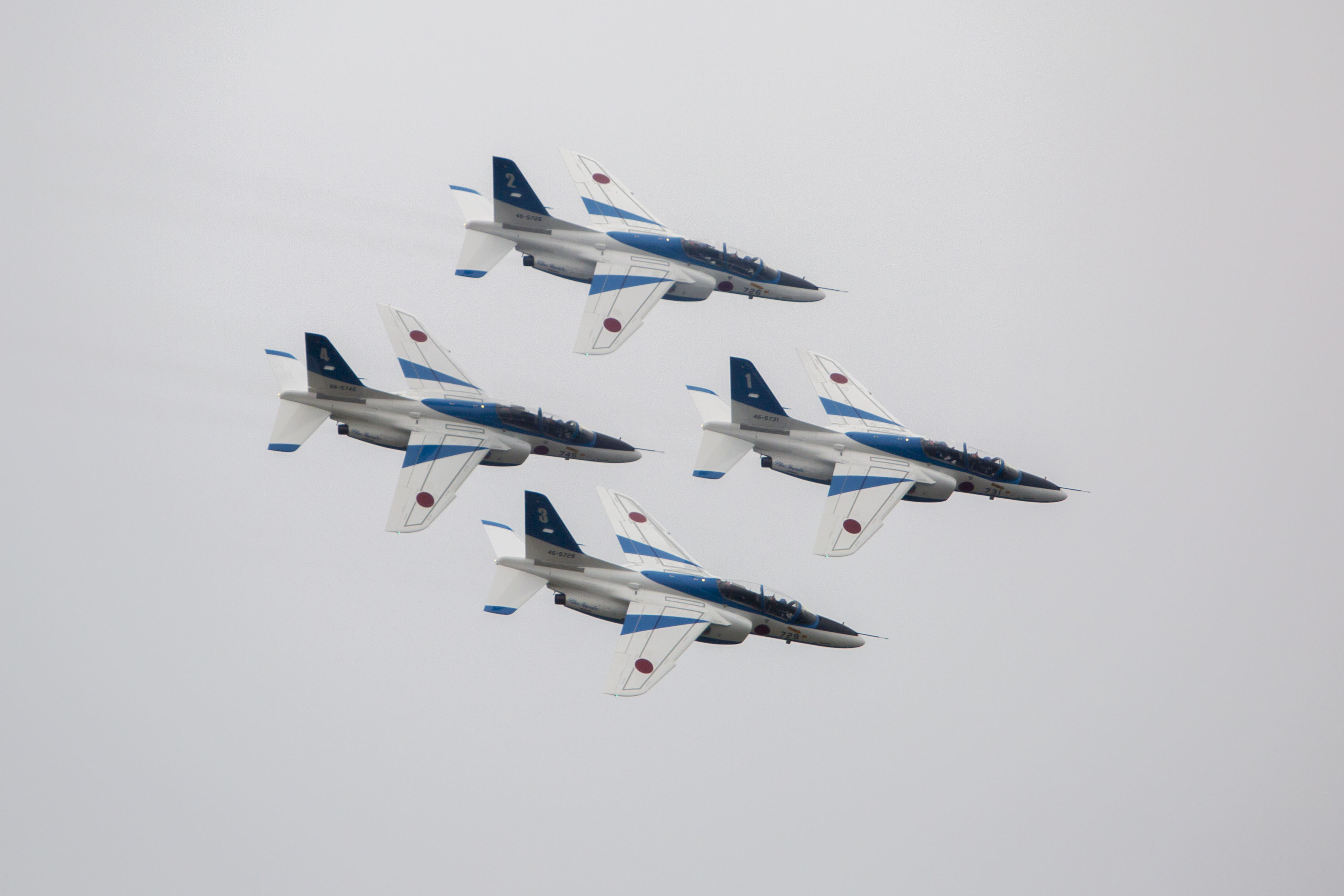 The Blue Impulse perform for visitors during the Japan Maritime Self-Defense Force/Marine Corps Air Station Iwakuni Friendship Day 2015 Air Show, May 3, 2015, aboard MCAS Iwakuni, Japan. The Blue Impulse are the Japan Air Self-Defense Force’s aerobatic display team which consists of seven Kawasaki T-4 training aircraft, only six of which perform during a show. Friendship Day presented visitors, near and far, the opportunity to come aboard the air station and interact with Japanese and American service members. (U.S. Marine Corps photo by Cpl. Luis Ramirez)